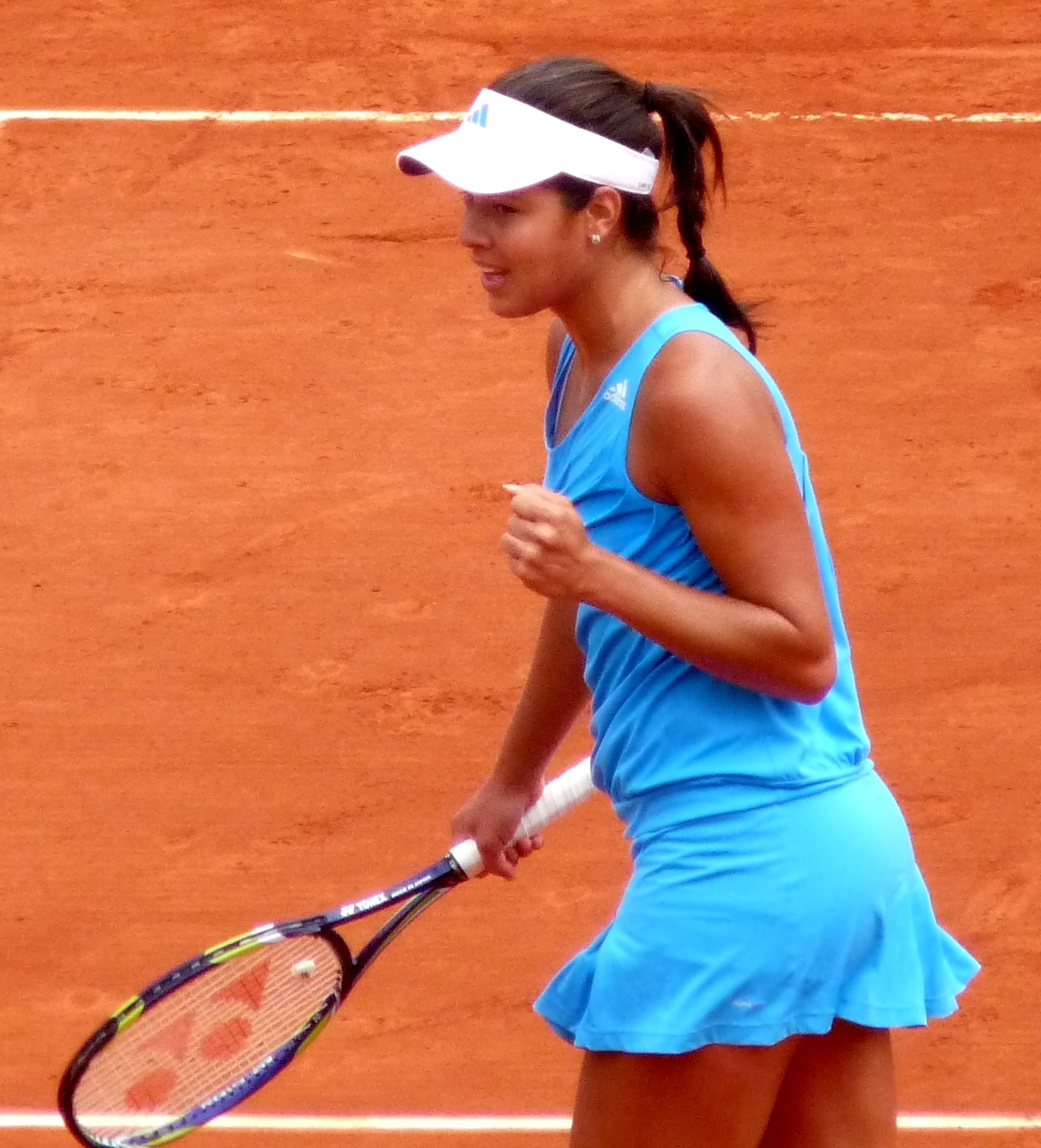 Ana Ivanović against Iveta Benešová in the 2009 French Open third round